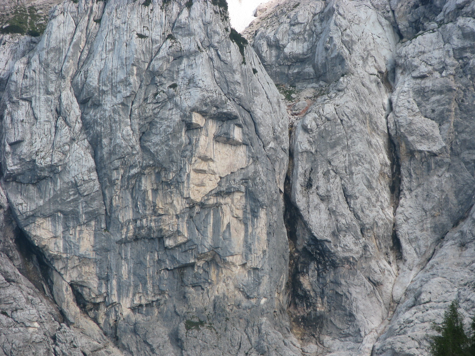 Ajdovska deklica - viewed from Erjavčeva koča. Without snow on rocks, the rock parts representing the face are in a better contrast with the non-white surroundingSlovenščina: Ajdovska deklica - pogled z Erjavčeve koče. Brez snega je naravni kontrast med svetlimi deli skale ("Ajdovsko deklico"), na eni strani, in nekoliko temnejšimi deli skale okrog obraza delice, na drugi strani, boljši in naredi podobo izrazitejšo